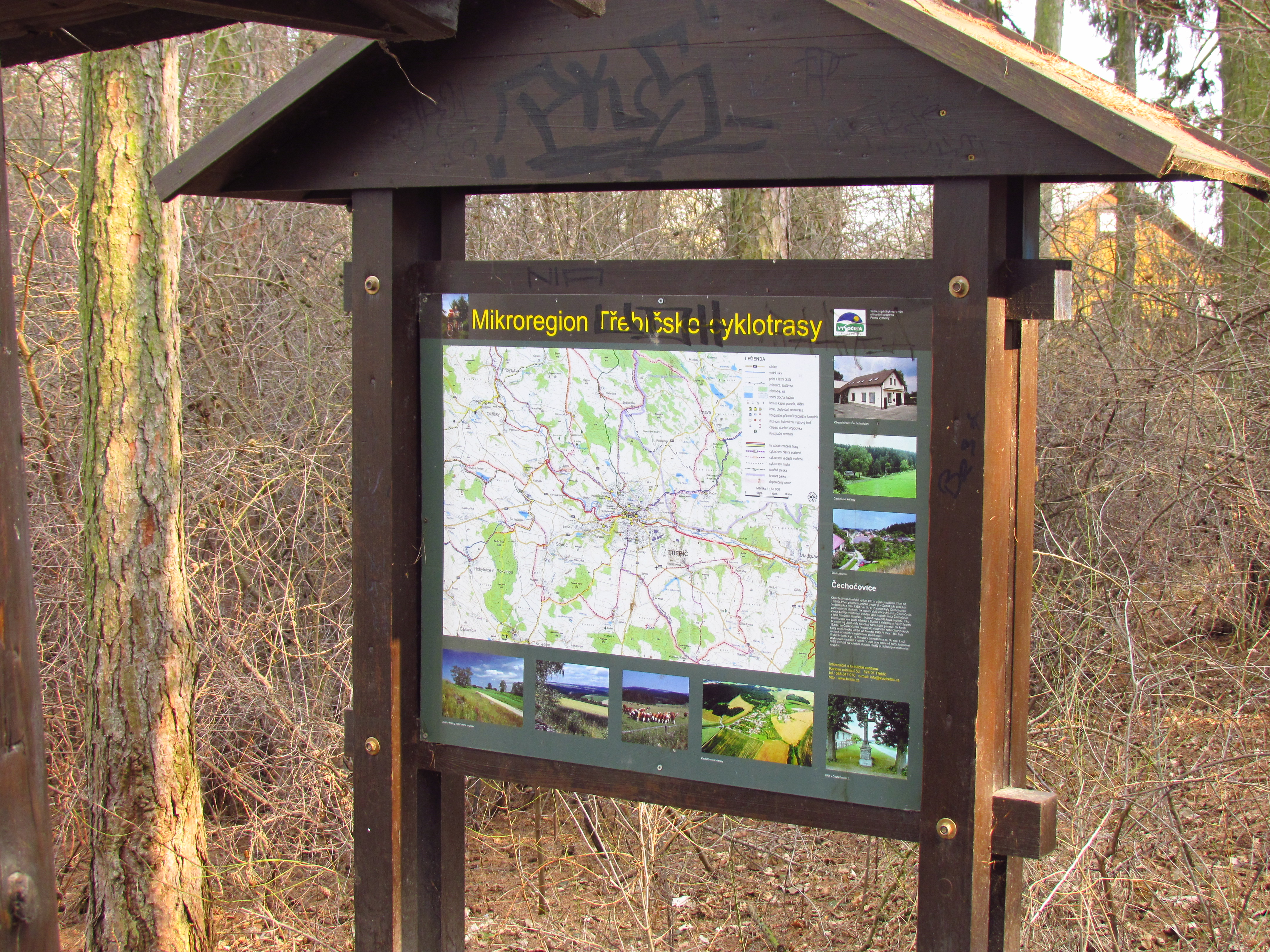 Sign of Mikroregion Třebíčsko in near Pond Steklý in Třebíč District.